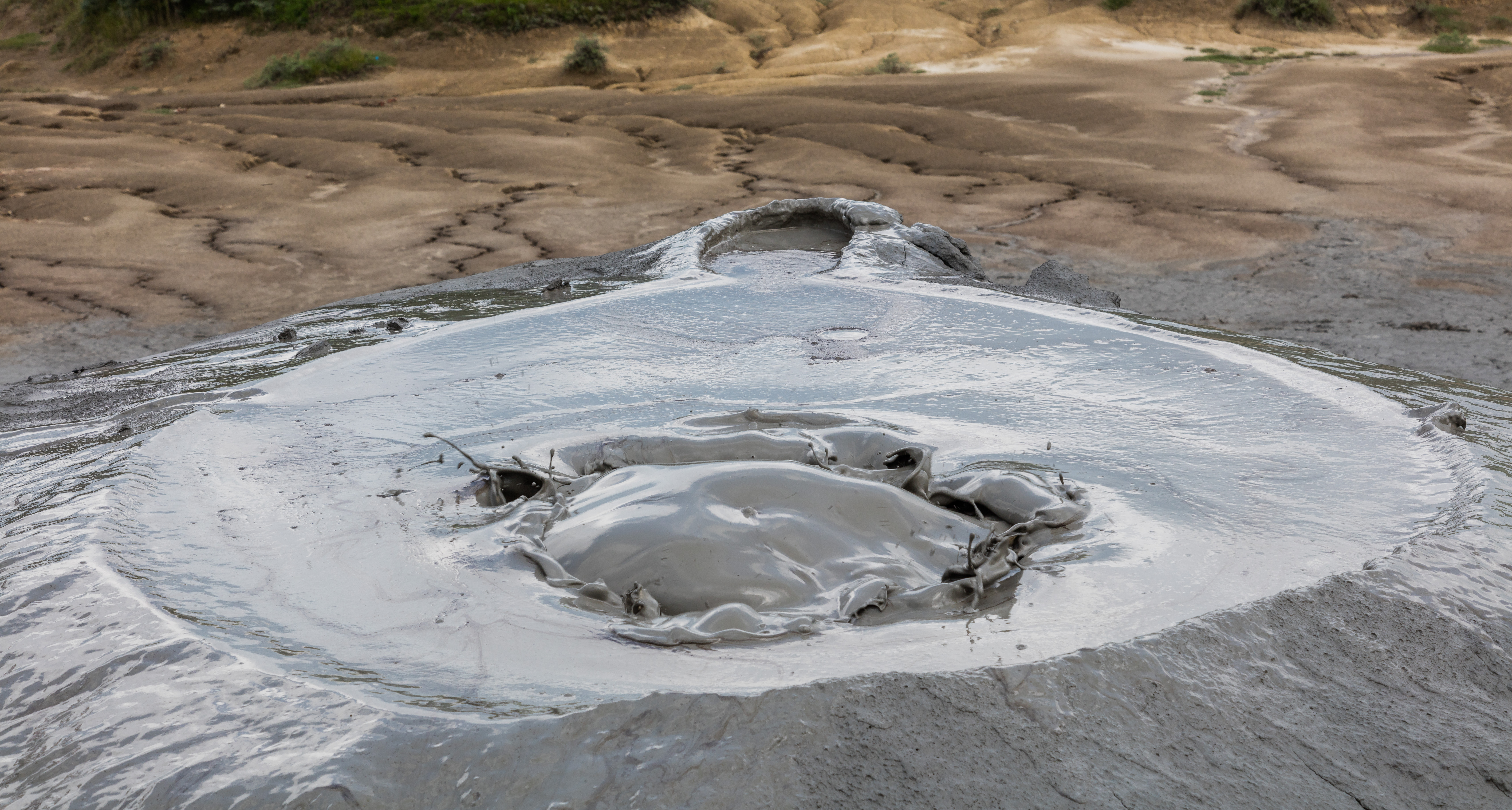 The Berca Mud Volcanoes are a geological and botanical reservation located close to Berca in Buzău County, Romania. The phenomenon is caused due to gases that erupt from 3,000 metres (9,800 ft) deep towards the surface, through the underground layers of clay and water, they push up underground salty water and mud, so that they overflow through the mouths of the volcanoes, while the gas emerges as bubbles as you can see in this image.